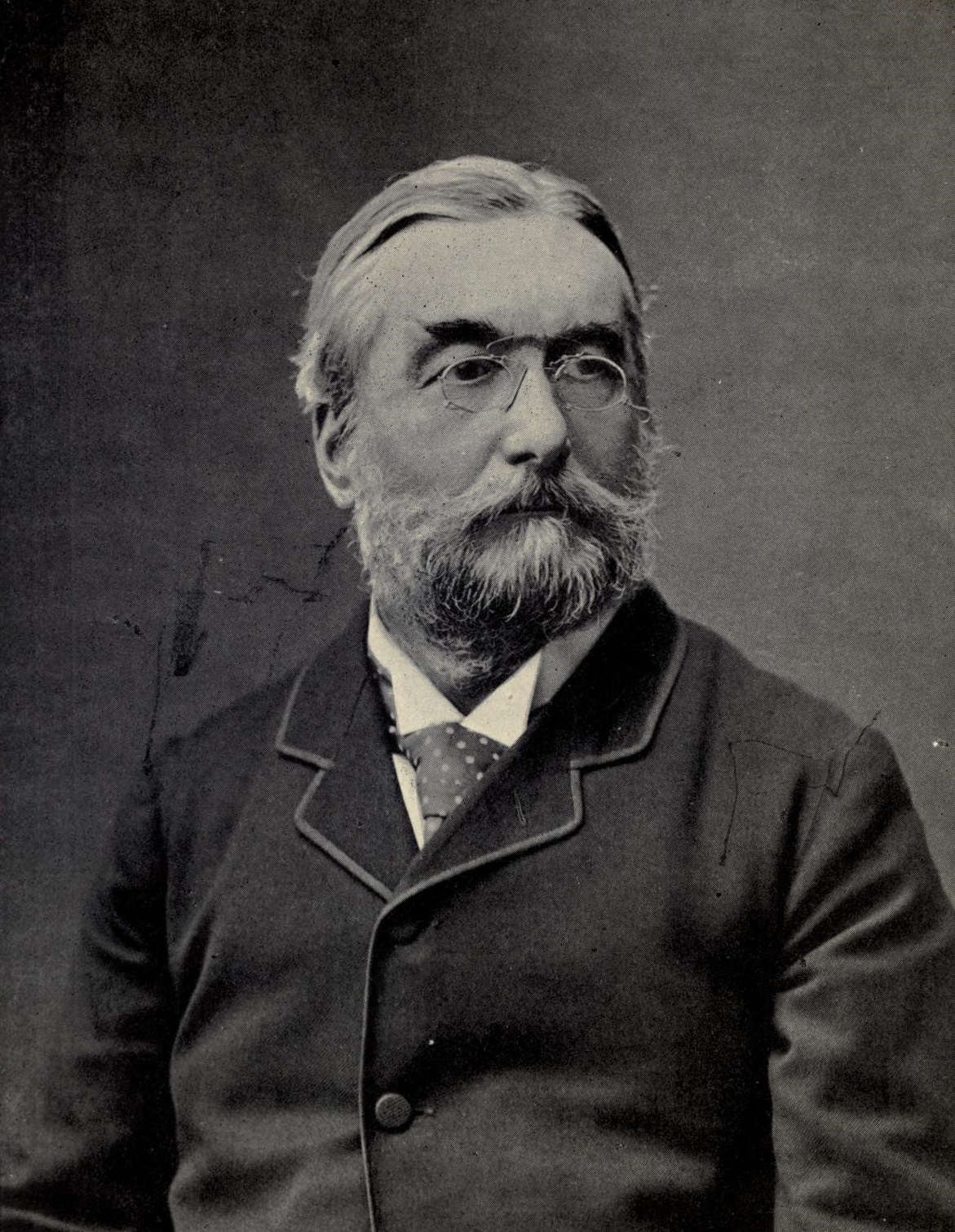 Picture of Norman Lockyer